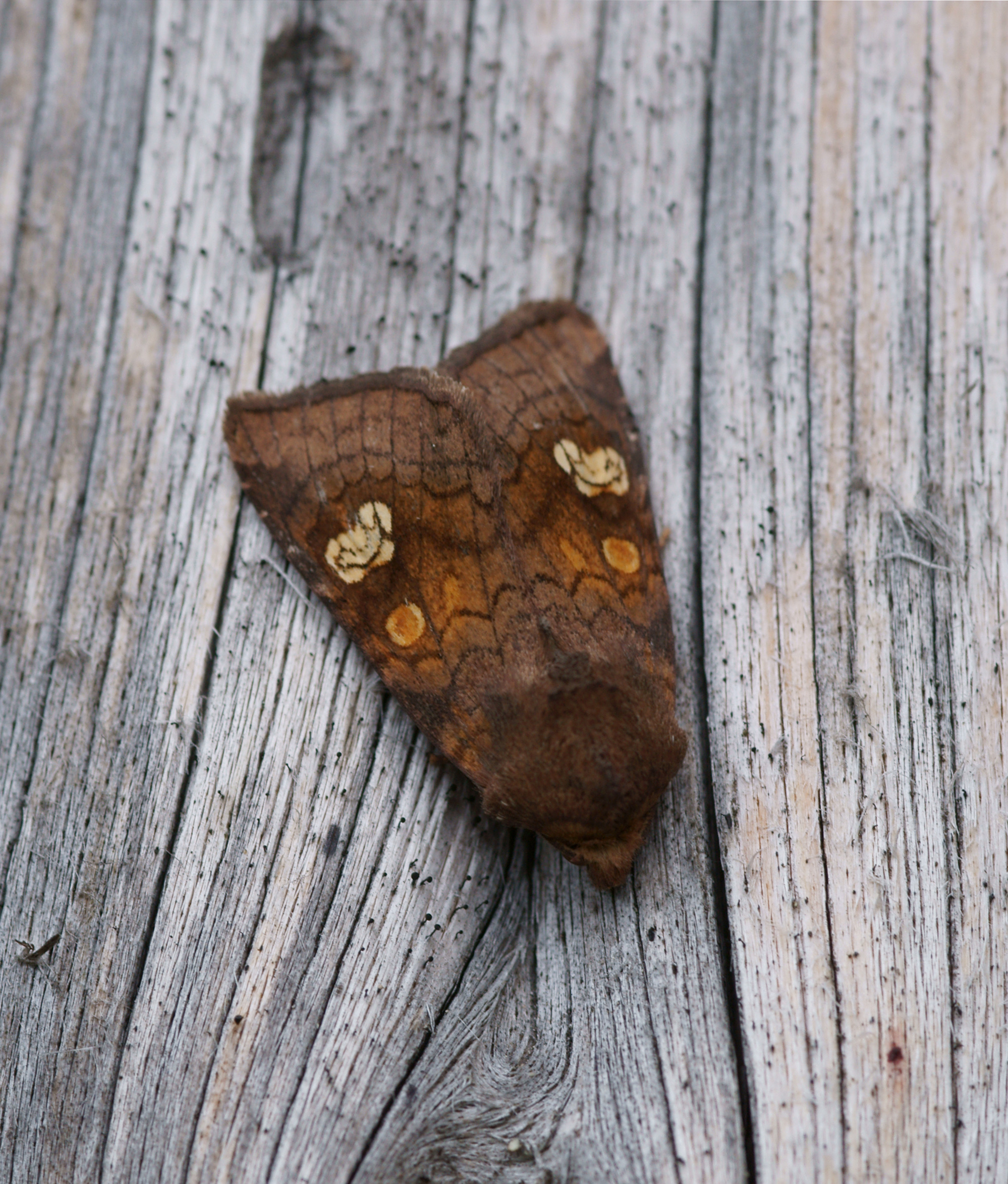 Ear Moth (Amphipoea oculea).